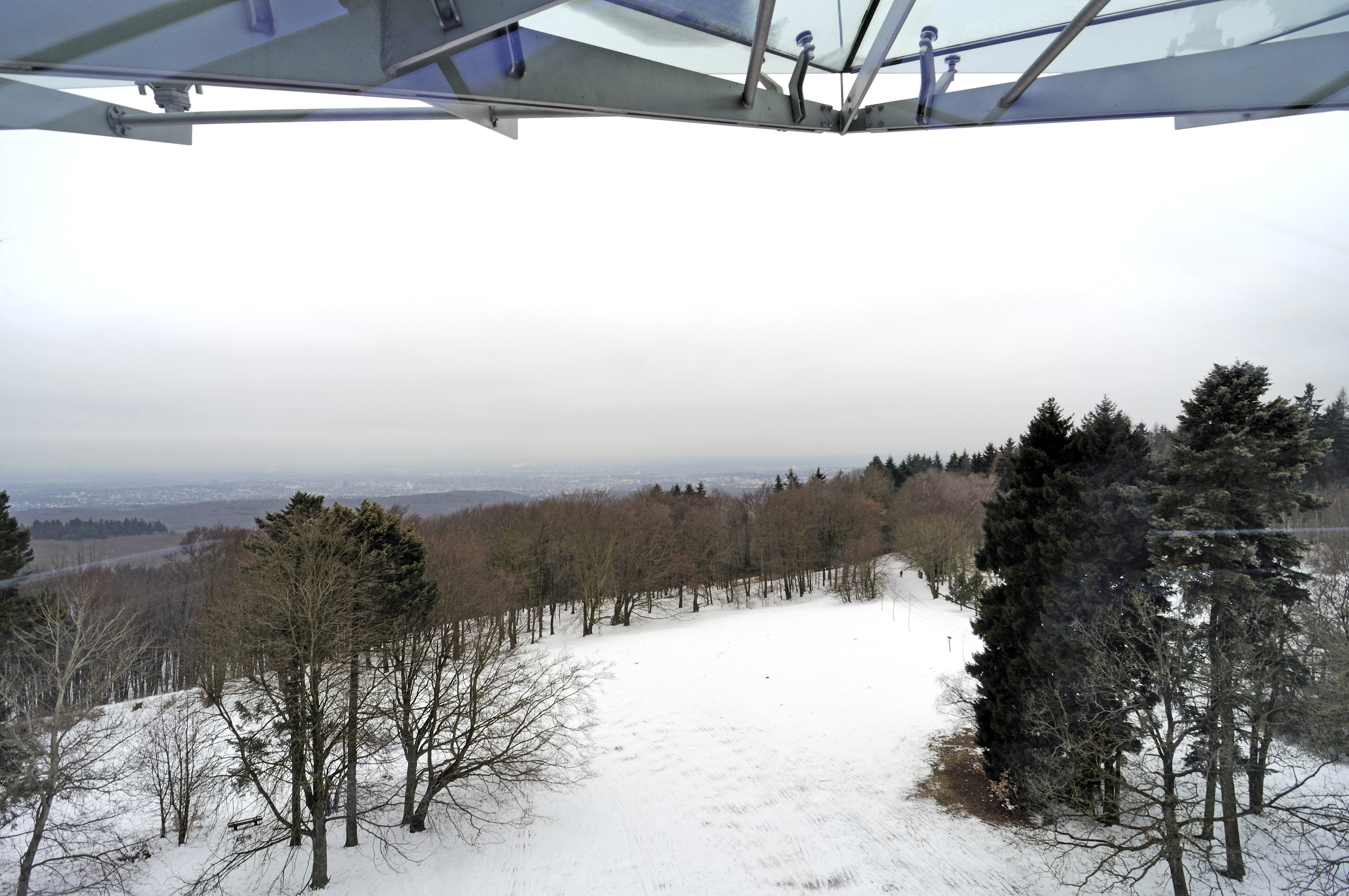 Jagdschloss Platte, near Wiesbaden (Germany).